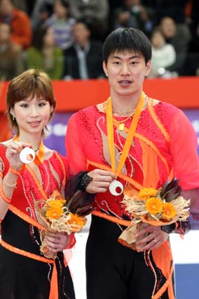 Pair skating of the 2007-2008 Grand Prix of Figure Skating Final - Zhang Dan and Zhang Hao on the podium